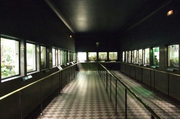 The Vivarium in the ménagerie du Jardin des plantes, French National Museum of Natural History, Paris, France.